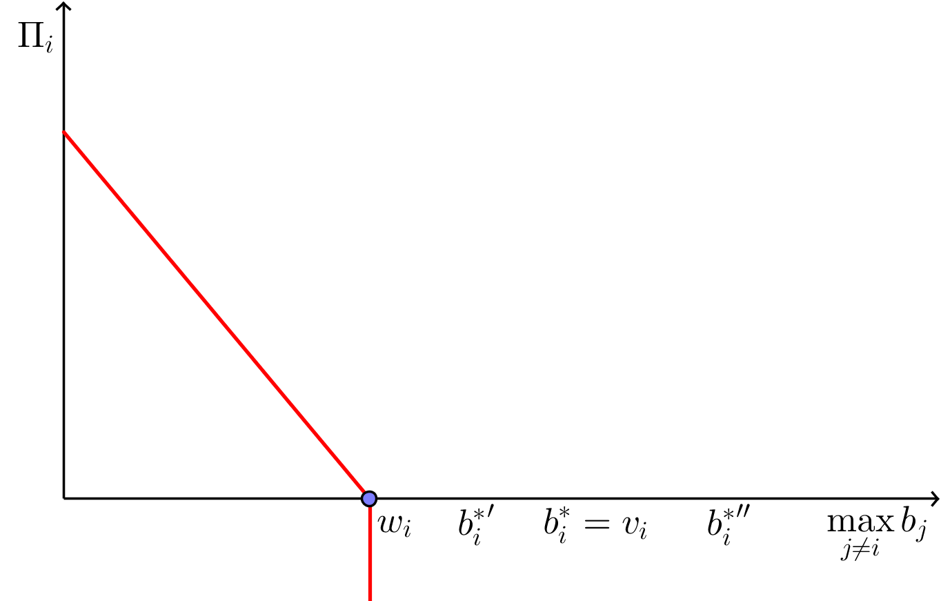 Second prive auction with binding budget constraint 1; binding constraint